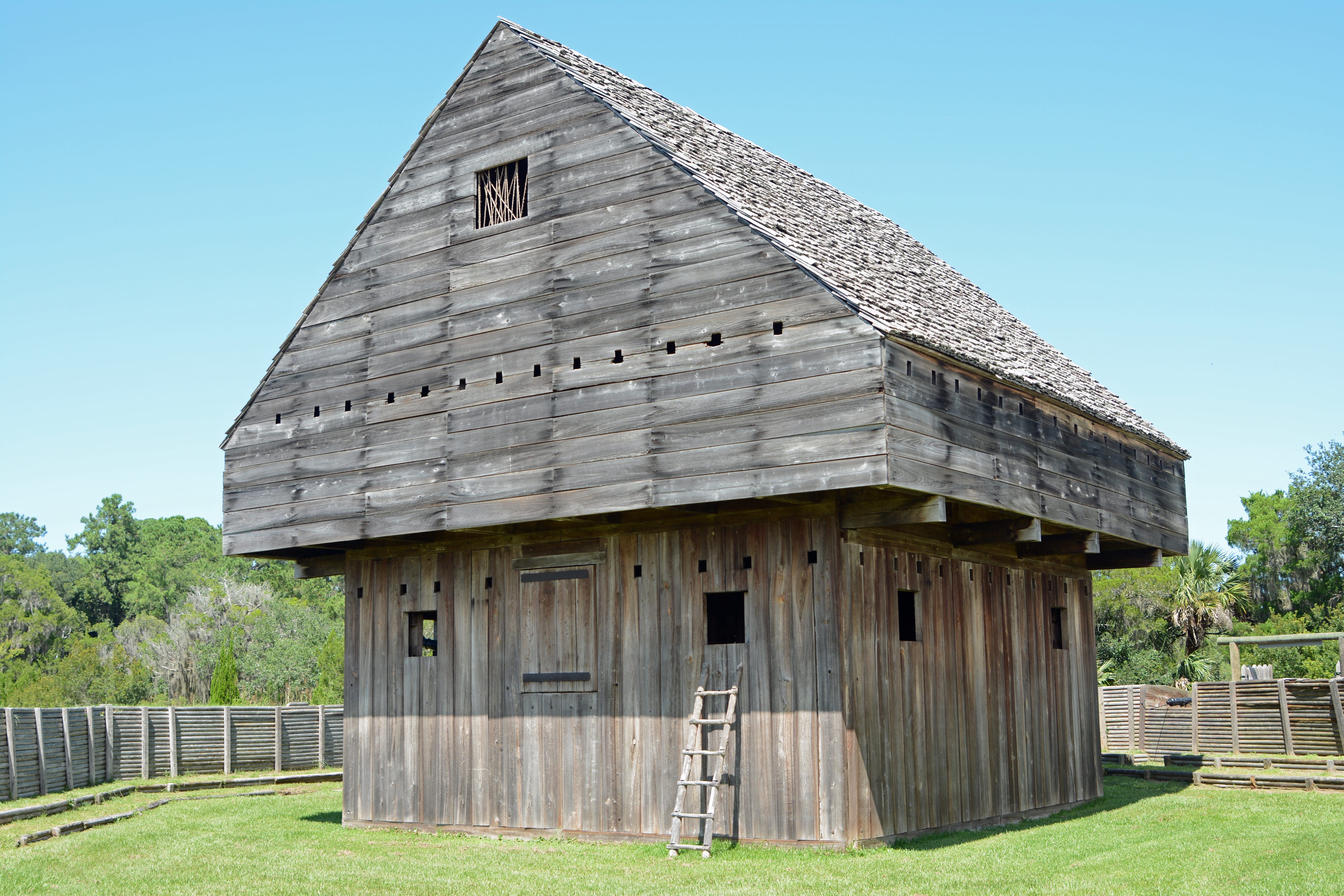 Fort King George in McIntosh County, Georgia, US